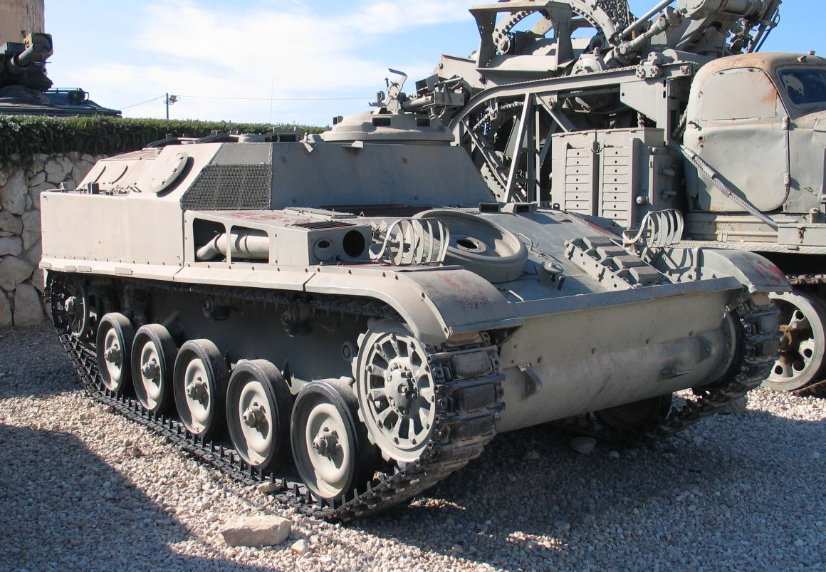 Description: AMX VCI APC in Yad la-Shiryon Museum, Israel. 2005. Source: Photo by me, User:Bukvoed